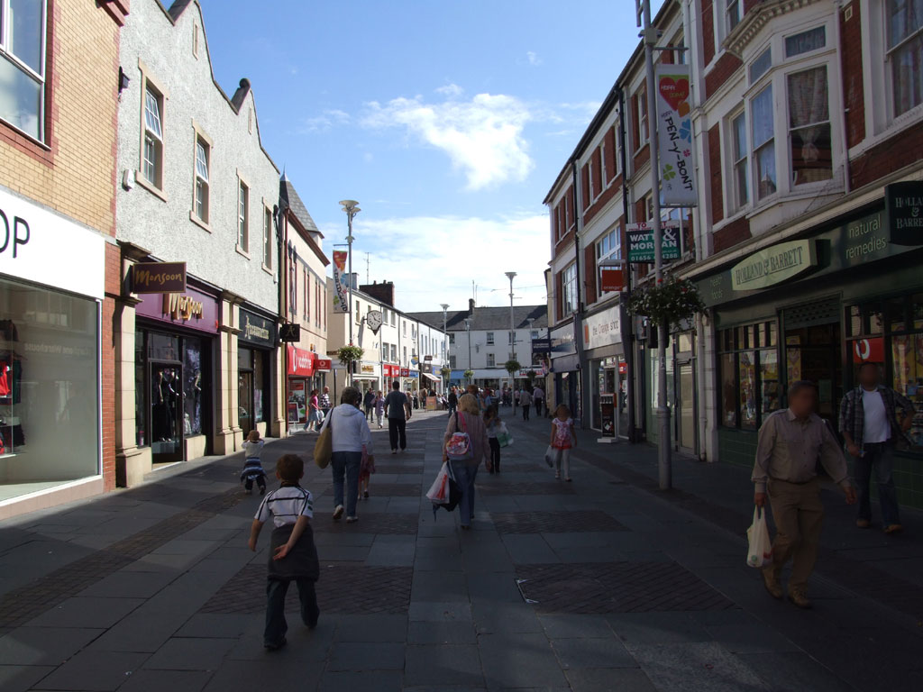 Adare Street Bridgend South Wales